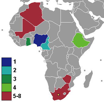 Results of teams that participated in the 2004 African Women's Championship, the sixth edition of the biennial football championship organised by the CAF.